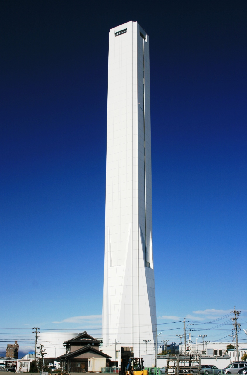 Mitsubishi_Elevator_of_SOLAE_Test_Tower_2010-2-27